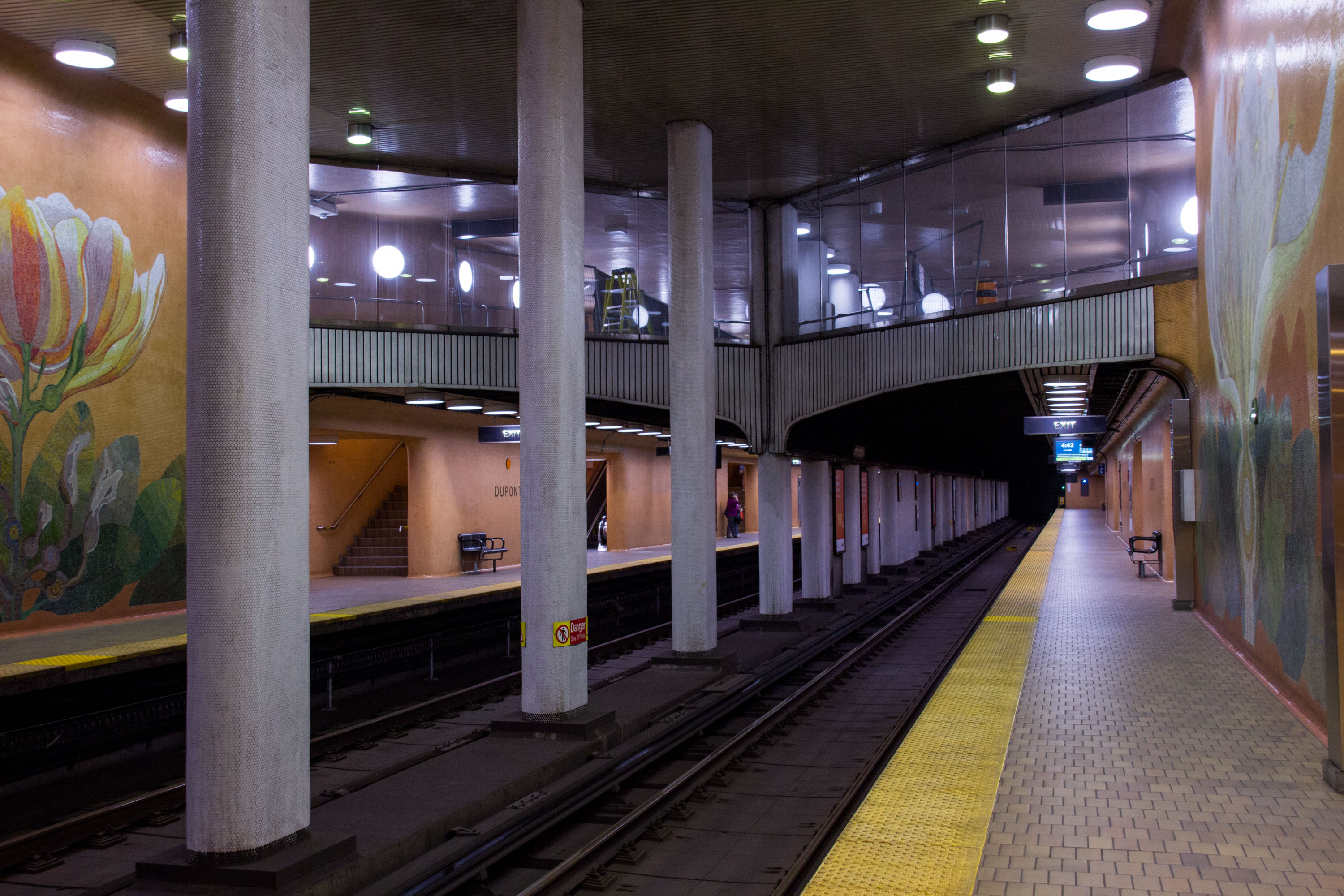 Dupont Station platform showing artwork